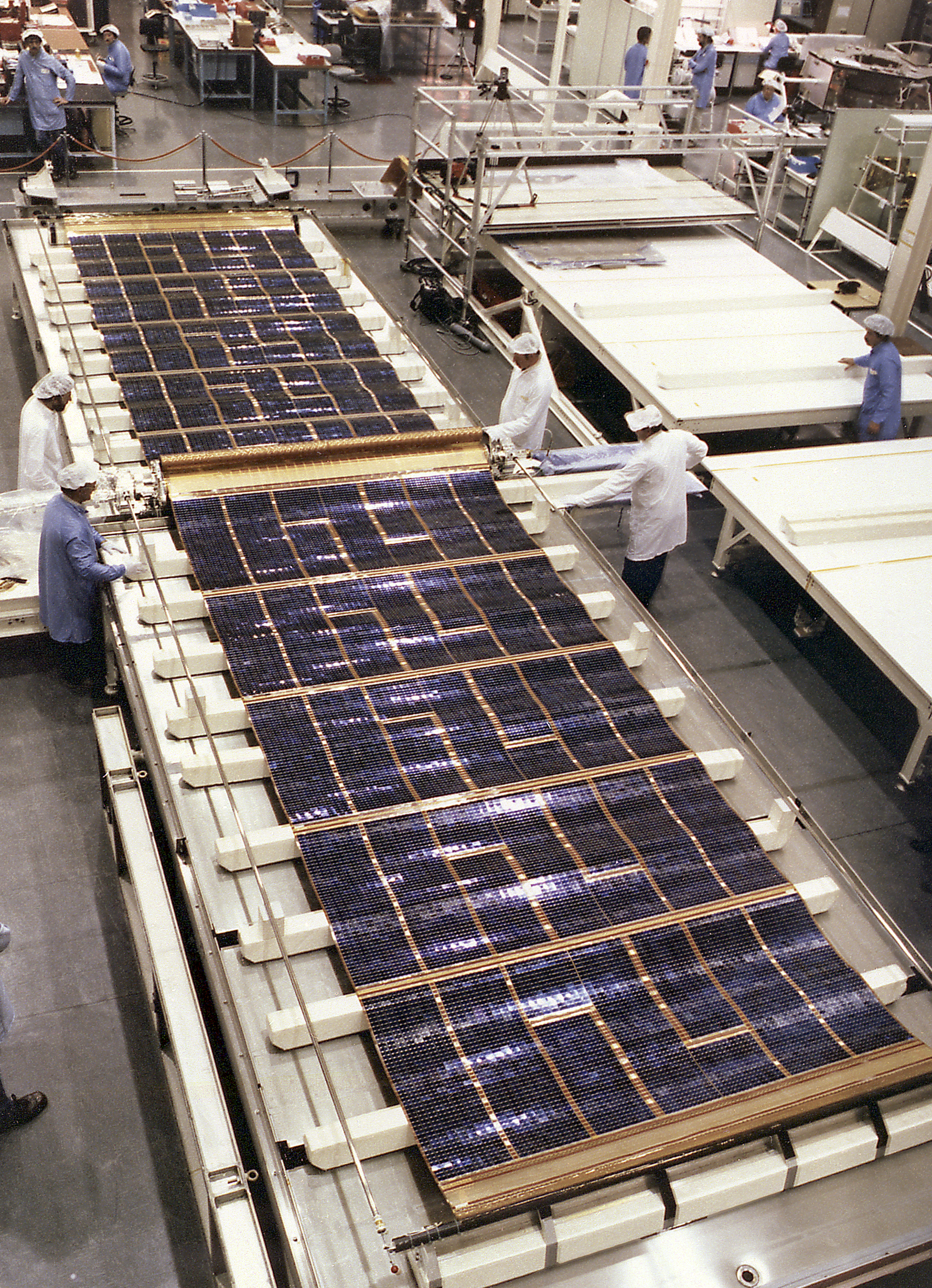 This is a view of a solar cell blanket deployed on a water table during the Solar Array deployment test. The Hubble Space Telescope (HST) Solar Arrays provide power to the spacecraft. The arrays are mounted on opposite sides of the HST, on the forward shell of the Support Systems Module. Each array stands on a 4-foot mast that supports a retractable wing of solar panels 40-feet (12.1-meters) long and 8.2-feet (2.5-meters) wide, in full extension. The arrays rotate so that the solar cells face the Sun as much as possible to harness the Sun's energy. The Space Telescope Operations Control Center at the Goddard Space Center operates the array, extending the panels and maneuvering the spacecraft to focus maximum sunlight on the arrays. The purpose of the HST, the most complex and sensitive optical telescope ever made, is to study the cosmos from a low-Earth orbit. By placing the telescope in space, astronomers are able to collect data that is free of the Earth's atmosphere. The HST Solar Array was designed by the European Space Agency and built by British Aerospace. The Marshall Space Flight Center had overall responsibility for design, development, and construction of the HST.